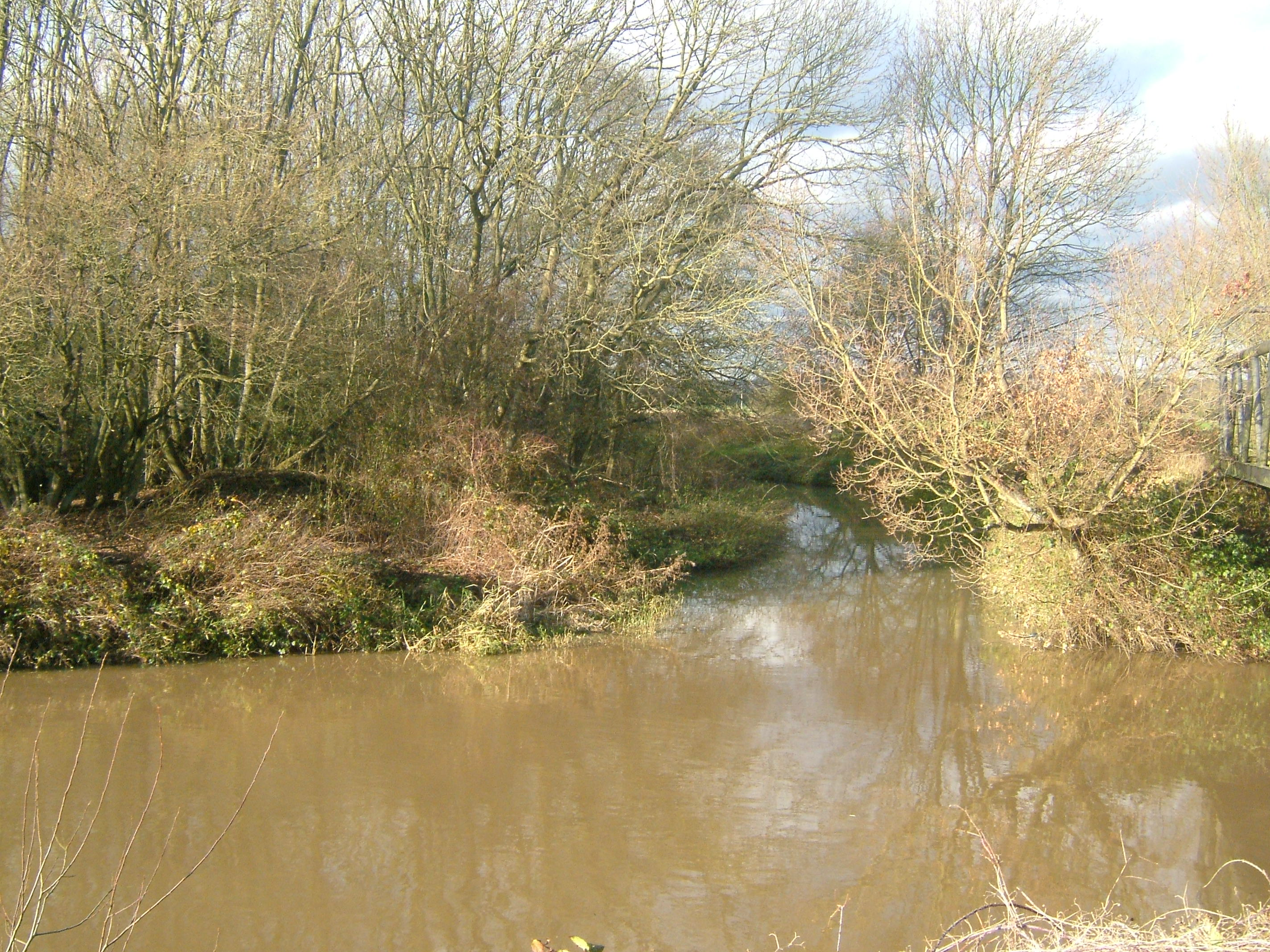 The River Bourne in Kent, England, Is a tributary of the River Medway. The Bourne entering the Medway. The water is 12.86m above mean sea level.